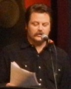 Sundance 2014 Awards Ceremony